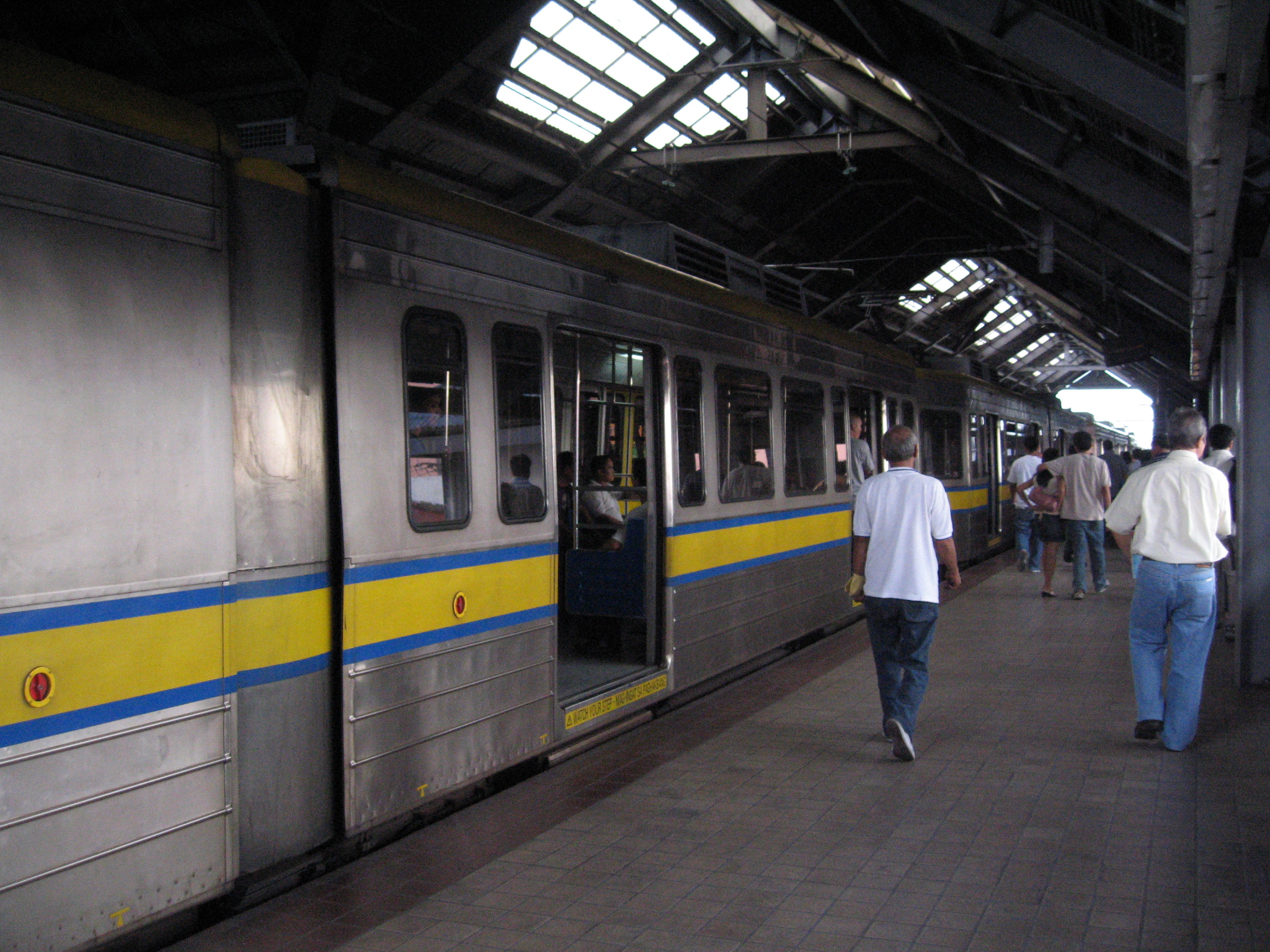 Inside Gil Puyat Station of the Manila LRT.